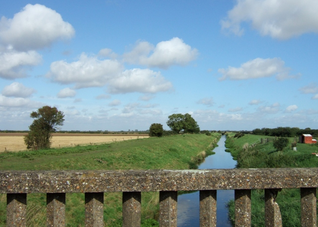 The Louth Canal from Highbridge The Louth Canal or Navigation was built between 1756 and 1777. It was taken over by the Great Northern Railway between 1849 and 1876 and trade declined steadily until it was temporarily closed during the 1914-18 war. The canal finally closed to navigation in 1924.